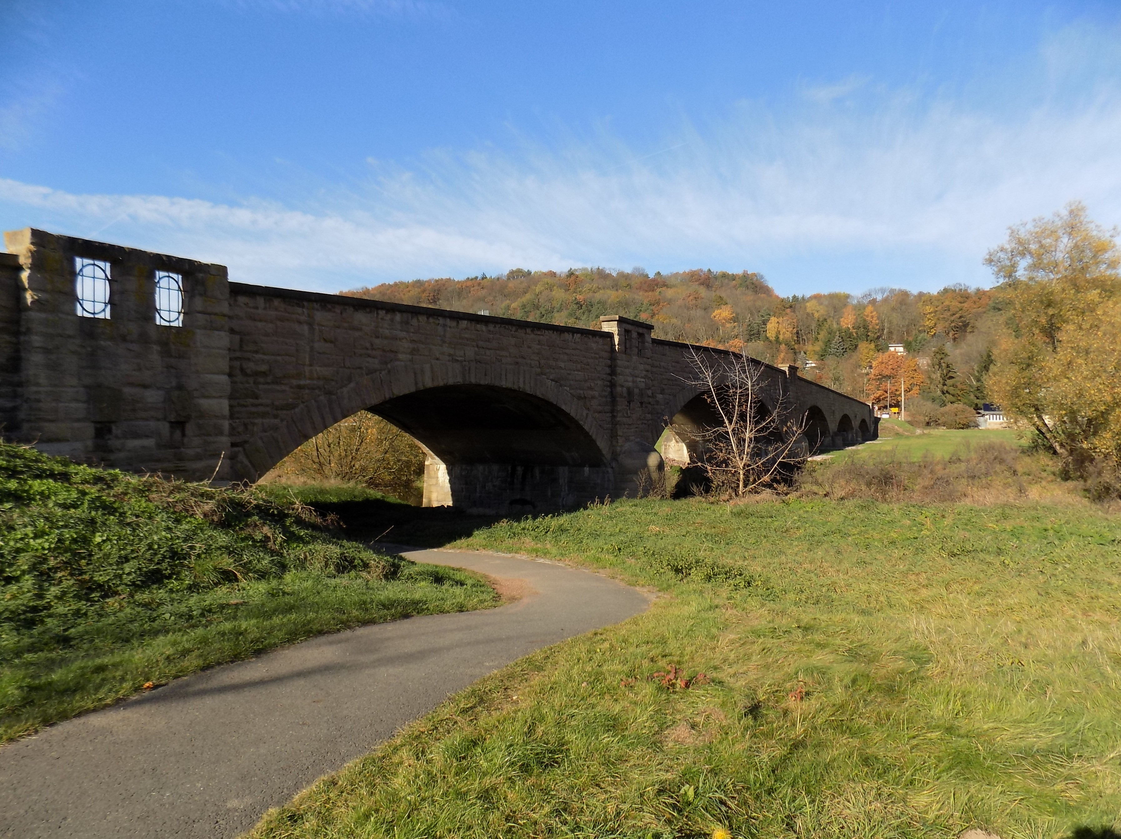 Bridge over the Weisse Elster river in Haynsburg (Wetterzeube, district: Burgenlandkreis, Saxony-Anhalt)